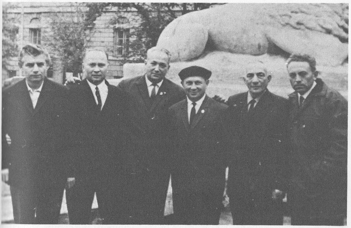 Alexander Pechersky (third left) and other former Sobibor prisoners at their meeting.